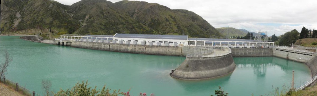 Panorama of Waitaki Dam, Waitaki River, New Zealand generated using Autostitch